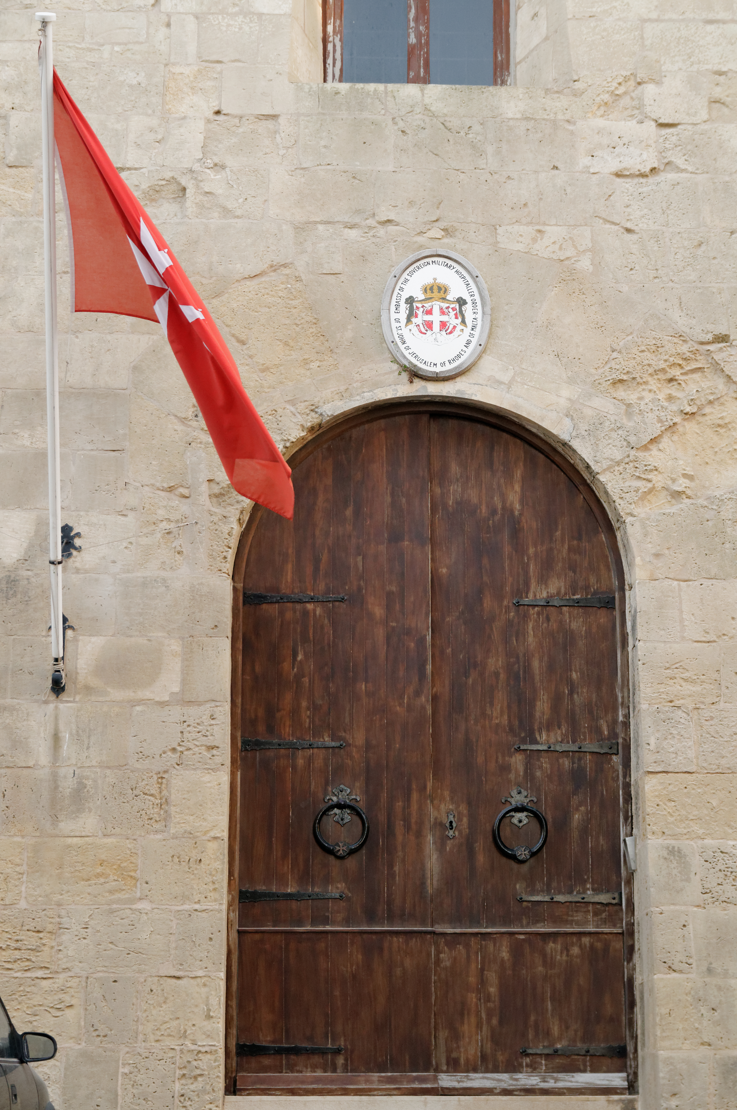 Door of the embassy of the Sovereign Military Order of Malta in Valletta (Kavalier San Gwann).